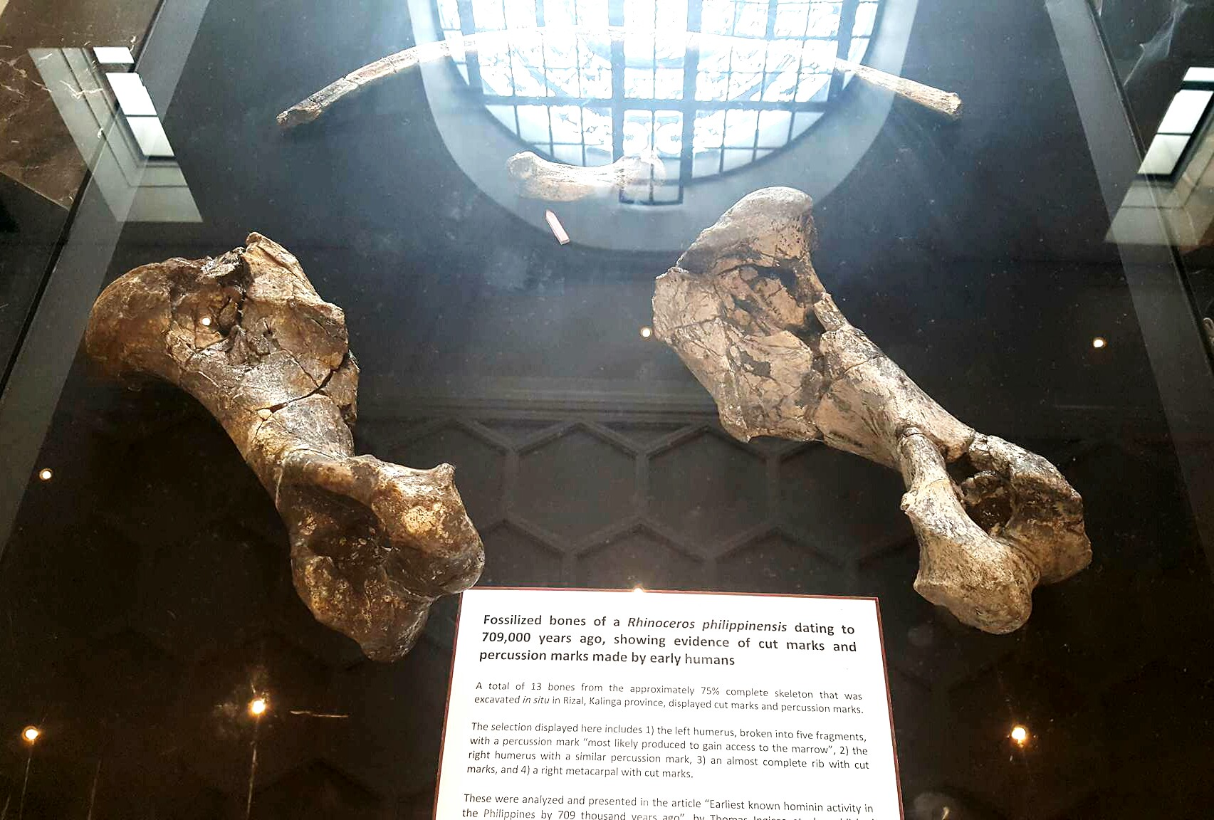 Fossilized bones of a Rhinoceros philippinensis showing evidence of cut marks and percussion marks made by early humans in the Philippines, dating to 709,000 years ago. One of the butchered animal remains found in Kalinga province proving there are early hominins in the country at that time. Filipino: Mga kinatay na labi ng isang Rhinoceros philippinensis na natuklasan sa Rizal, Kalinga na nagpapatunay na may mga naninirahan nang hominini sa bansa 709,000 taon na ang nakararaan.